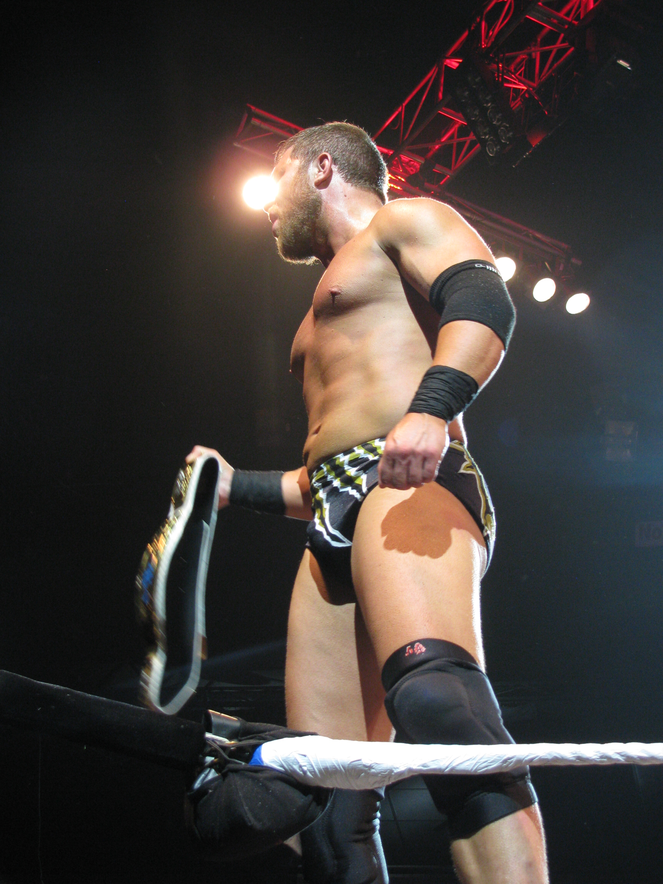 Curtis Axel @ Adelaide, South Australia WWE house show on the 29th of July '13